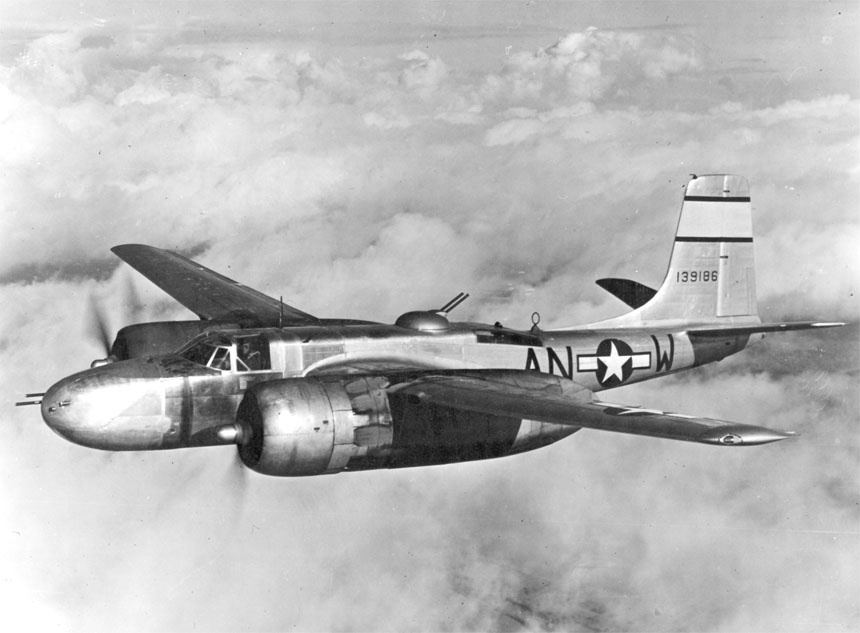 Douglas A-26B-15-DL(41-39186/6899) in flight.